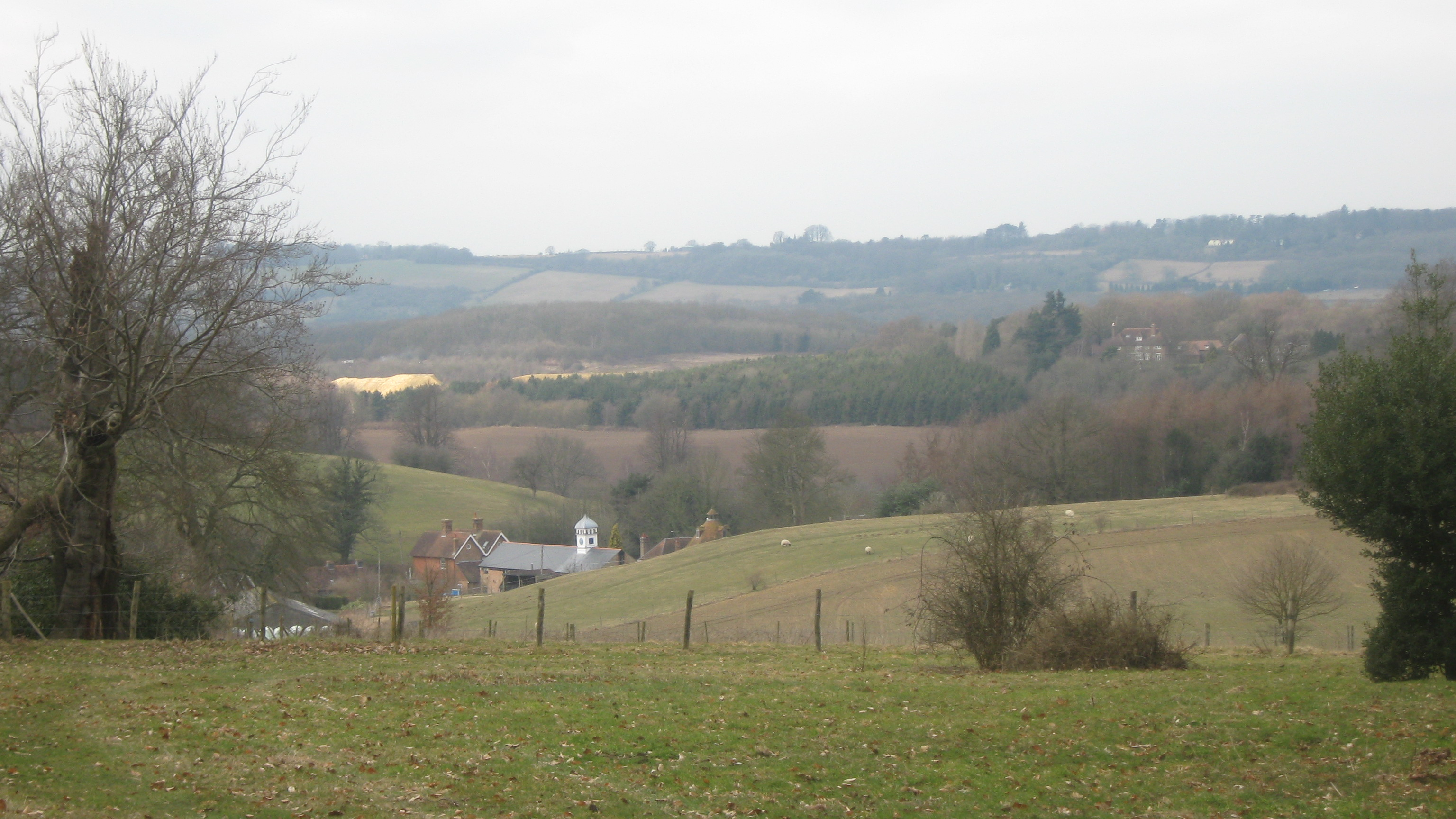 View of Squerryes Court Seen from the Greensand Way (long distance path) heading towards Westerham. In the background is the North Downs.